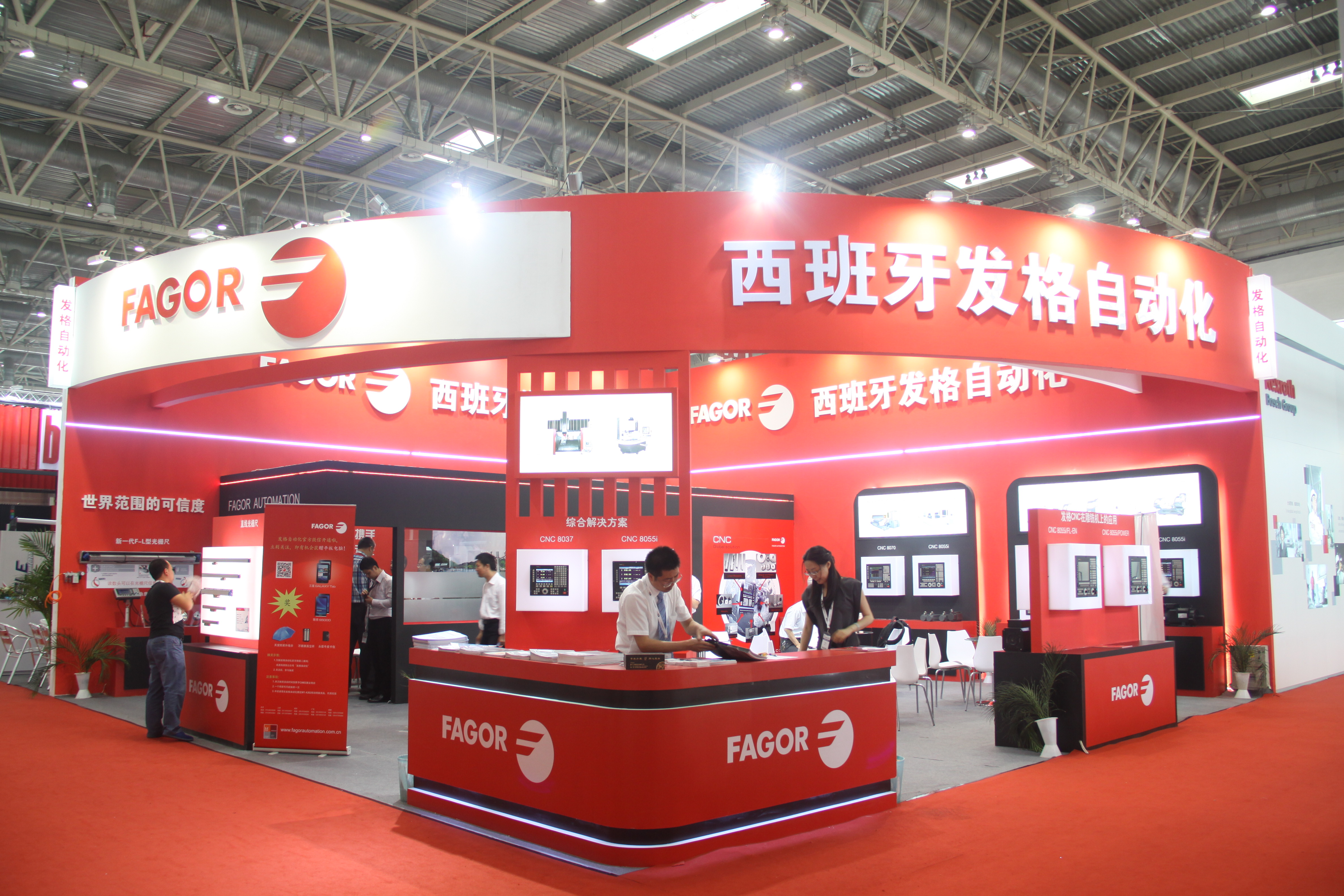 The 12th China International Machine Tool & Tools Exhibition CIMES 2014, held from the 18th to the 22nd of June